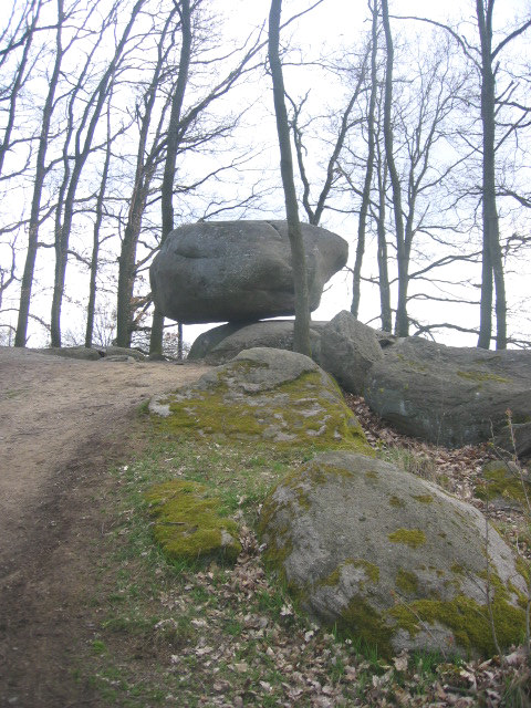 39 tonnes weighing mythic rocking stone in Kadov near Blatná (South Bohemian Region), the most known one in the Czech Republic, newly embedded by Pavel Pavel